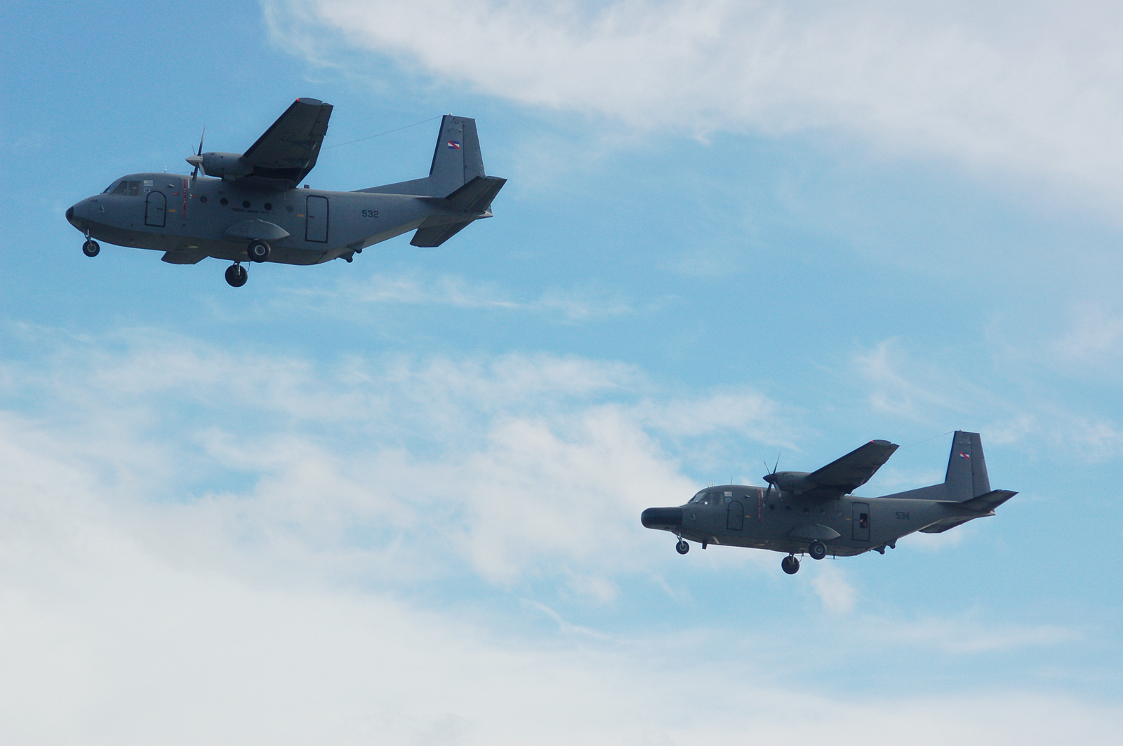 A couple of C.A.S.A. C-212 "Aviocar" of the Uruguayan Air Force.